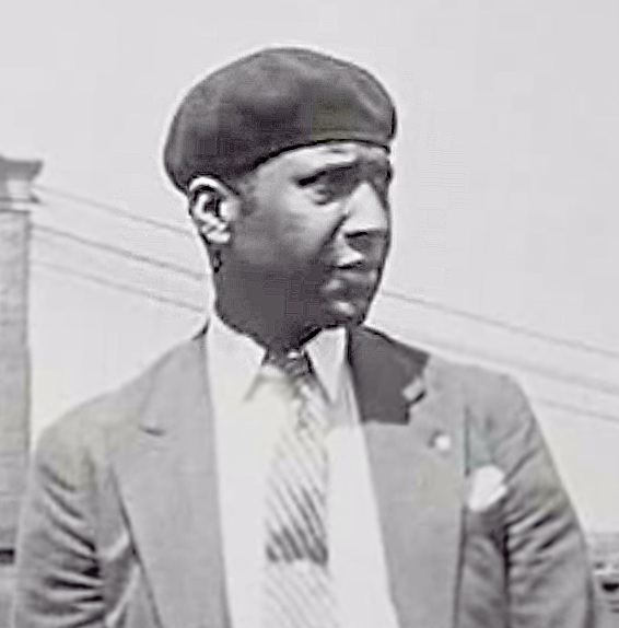 Palmer Hayden observing a dockyard scene he is painting in the early 1930s.